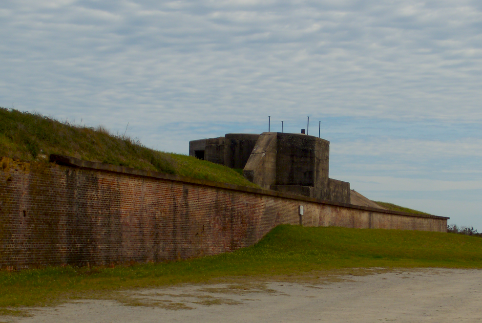 Photo of Fort Caswell located in the NC Baptist Assembly